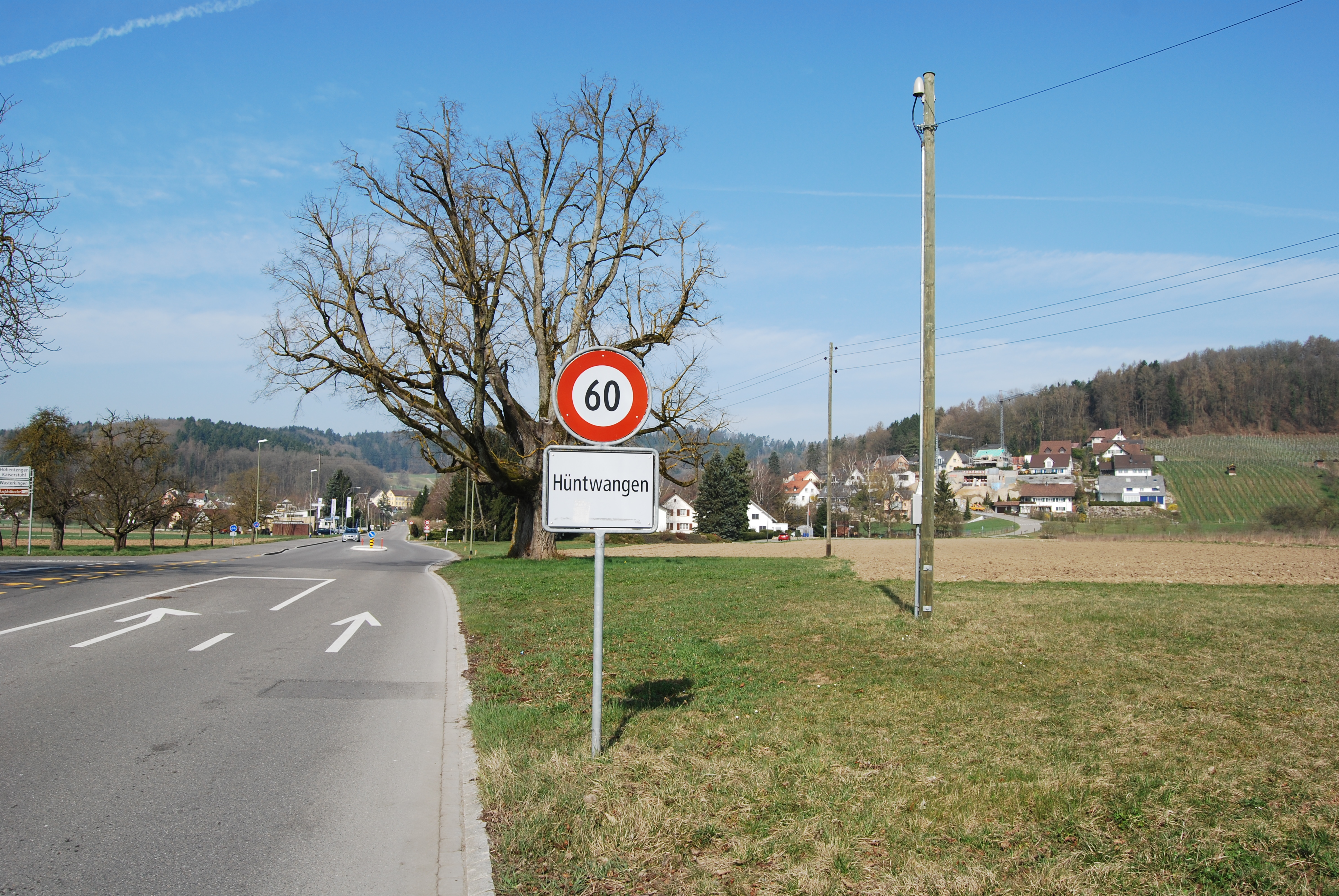 Village entry of Hüntwangen, canton of Zürich, SwitzerlandEsperanto: Vilaĝeniro de Hüntwangen, Kantono Zürich, Svislando